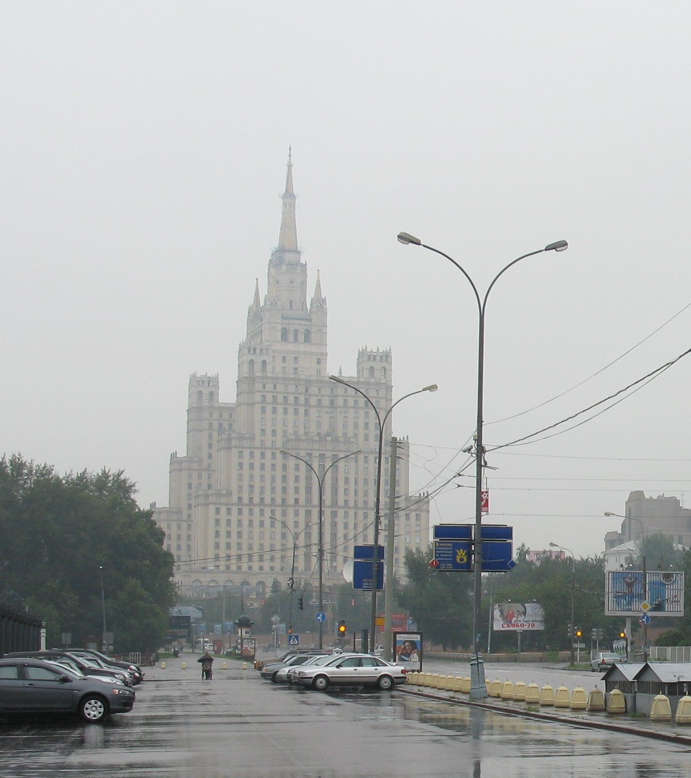 Konyushkovskaya ulitsa with the Kudrinskaya Square Building in the distance, Moscow, Russia